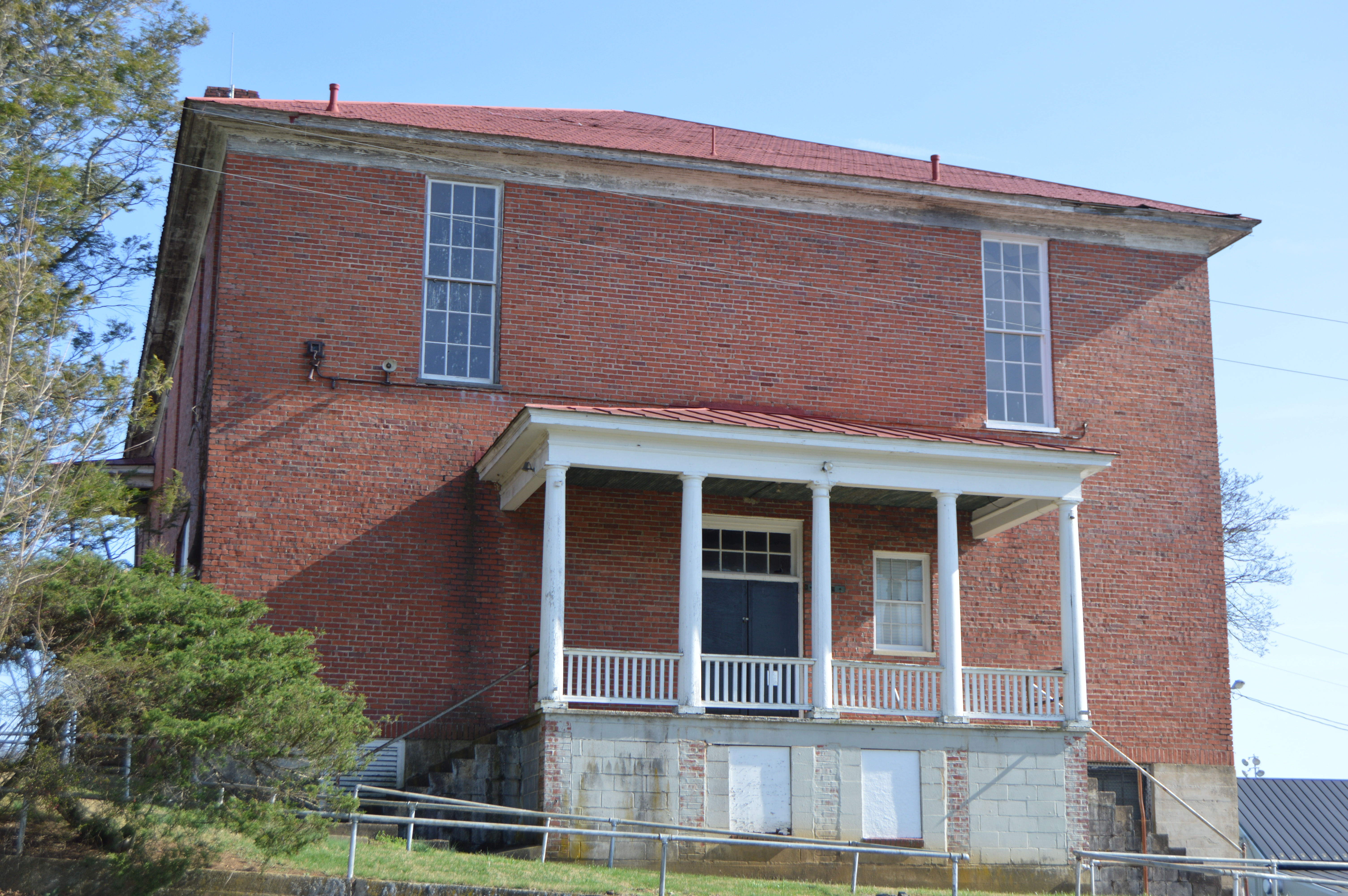 Front of the Middlebrook High School, located on Cherry Grove Road at Middlebrook in Augusta County, Virginia, United States. Built in 1923, it is listed on the National Register of Historic Places.